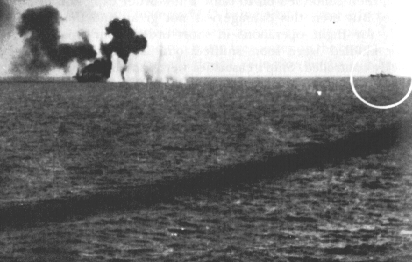 Gambier Bay (CVE-73) making smoke while shells from Japanese surface forces splash down beside her (the circled ship is a Japanese heavy cruiser; this is one of the few photos showing both American and Japanese ships in the same image). US Navy photo. img URL